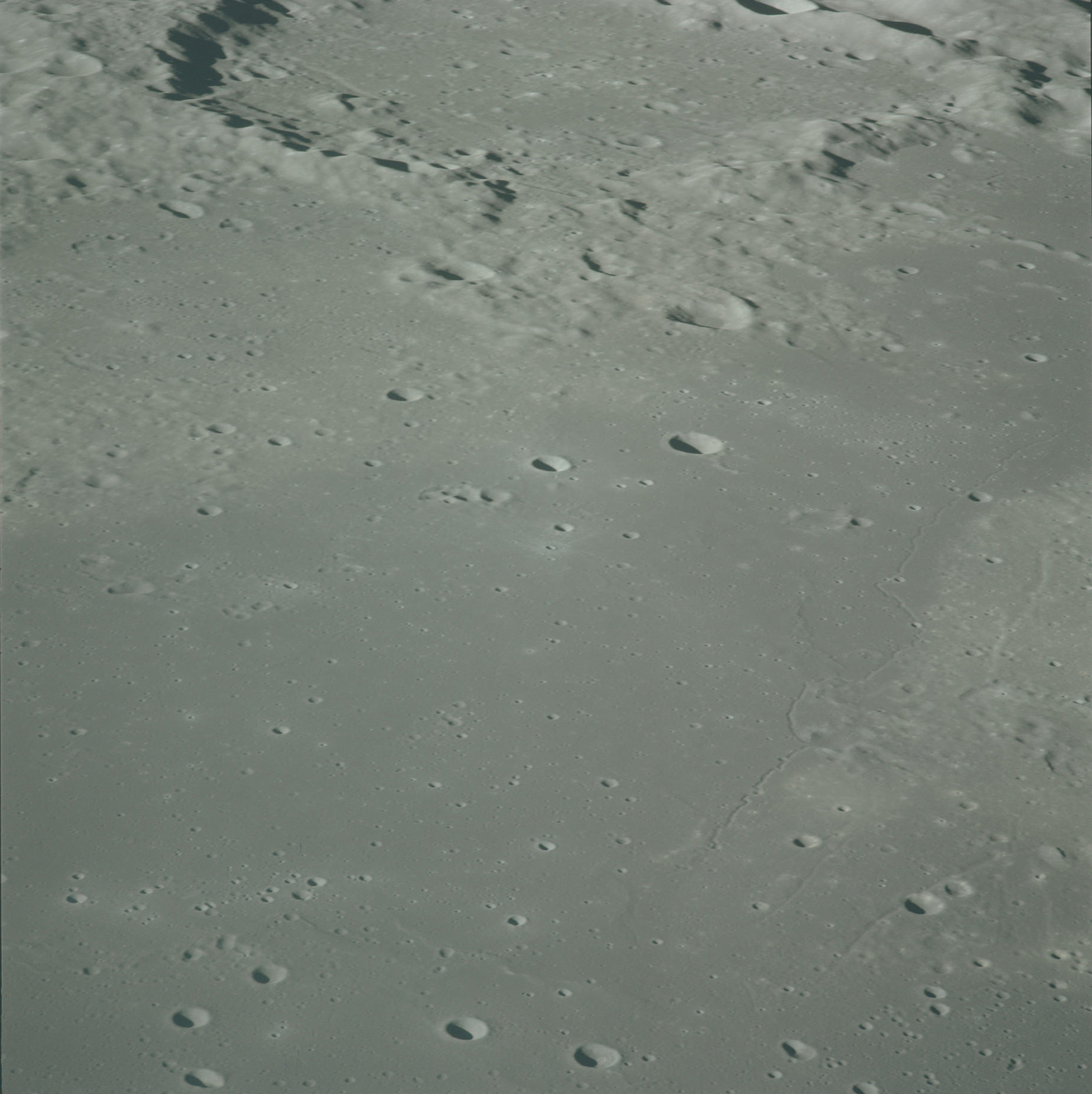 Agatharchides lunar crater - Apollo-16 image AS16-119-19124